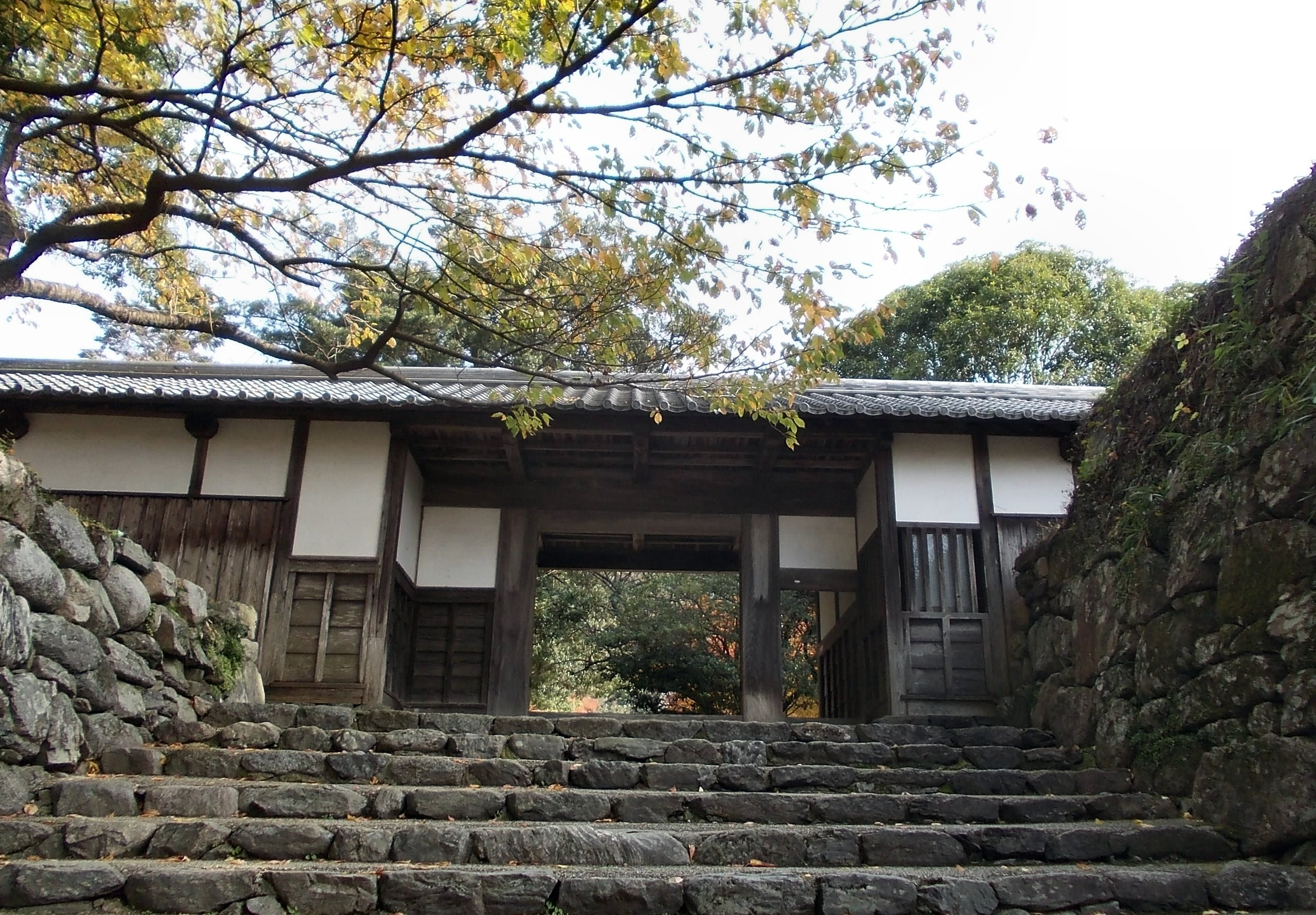 Akizuki Castle Ruins Nagayamon, Asakura, Fukuoka, Japan